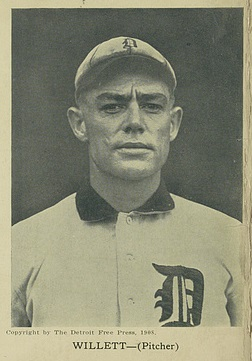 Portrait of Ed Willett published by Detroit Free Press 1908